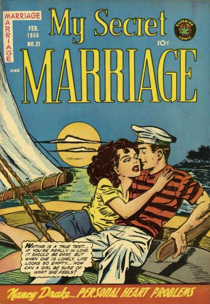 Cover of My Secret Marriage #21, February 1956